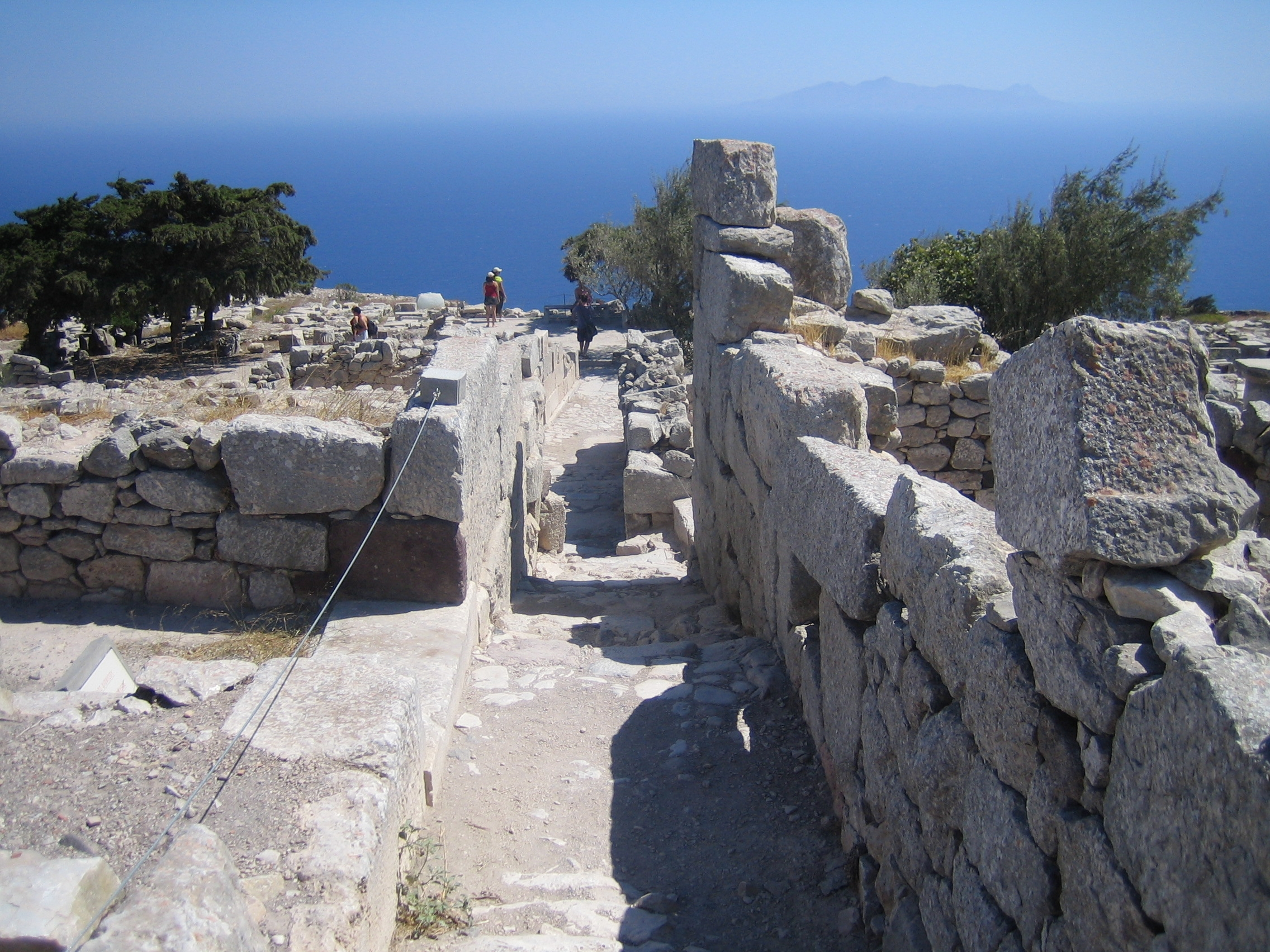 Ancient Thera.